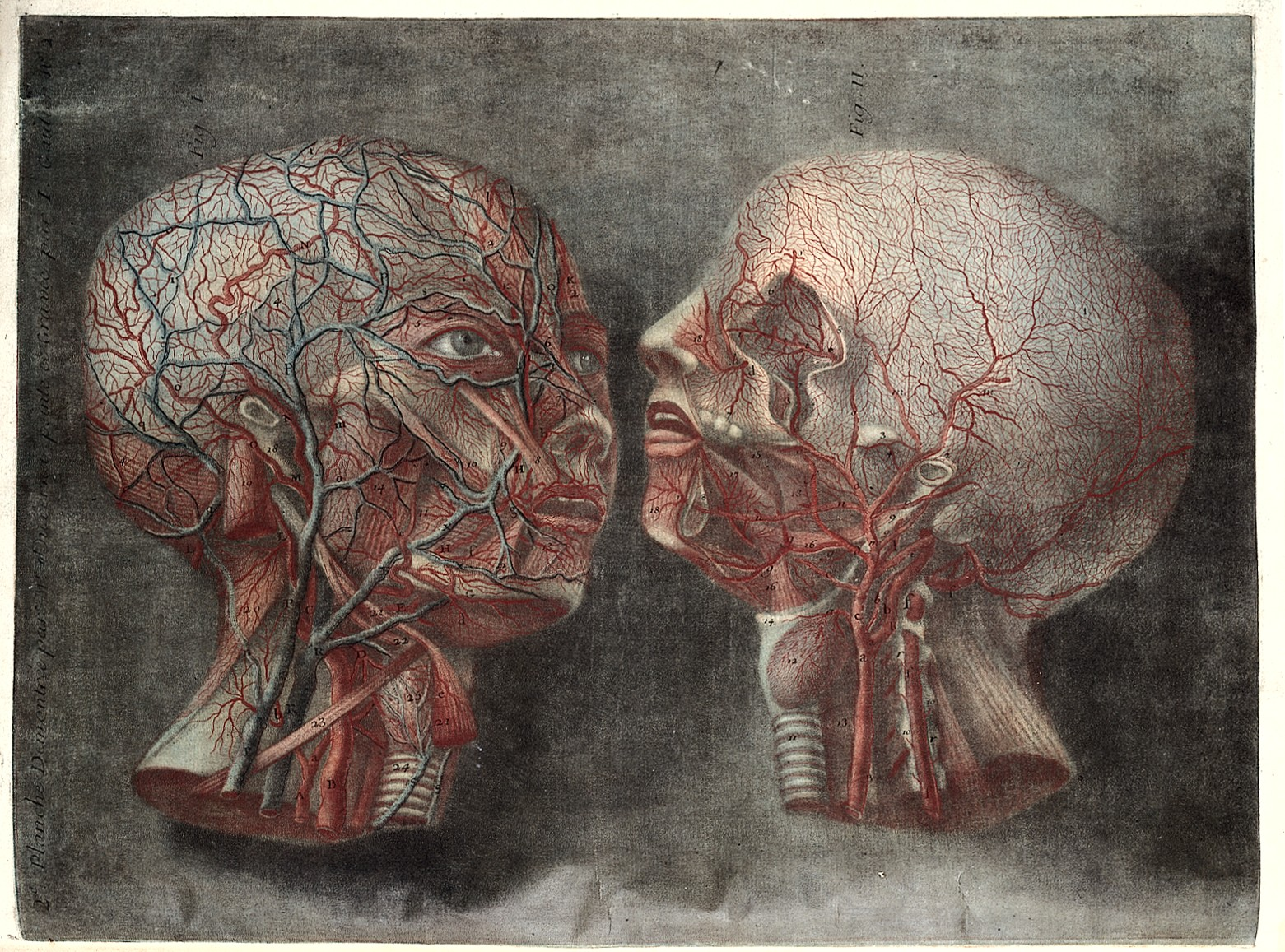 Showing blood vessels of the head and neck. Anatomie de la tête, en tableaux imprimés, qui representent au naturel le cerveau sous différentes coupes, la distribution des vaisseaux ... les organes des sens, et une partie de la névrologie, d'après les pièces disséquées et préparées . Book title; Anatomy of the head, in printed images, representing the natural appearance of the brain at different levels, the distribution of the vessels, the sensory organs and part of the nervous system; taken from dissected and prepared portions of the subjects. Rare Books Keywords: Veins; Head; Blood Circulation; Anatomy; Anatomy, Artistic; Jacques Fabien Gautier d'Agoty; Jacques Fabien Gautier d'Agoty